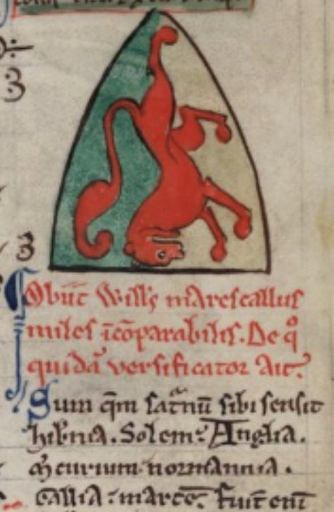 Inverted shield (party per pale or and vert, a lion rampant gules) signifying death of William the Marshal of England in 1219 CE.